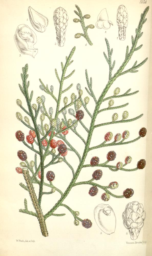 Illustration of Microcachrys tetragona